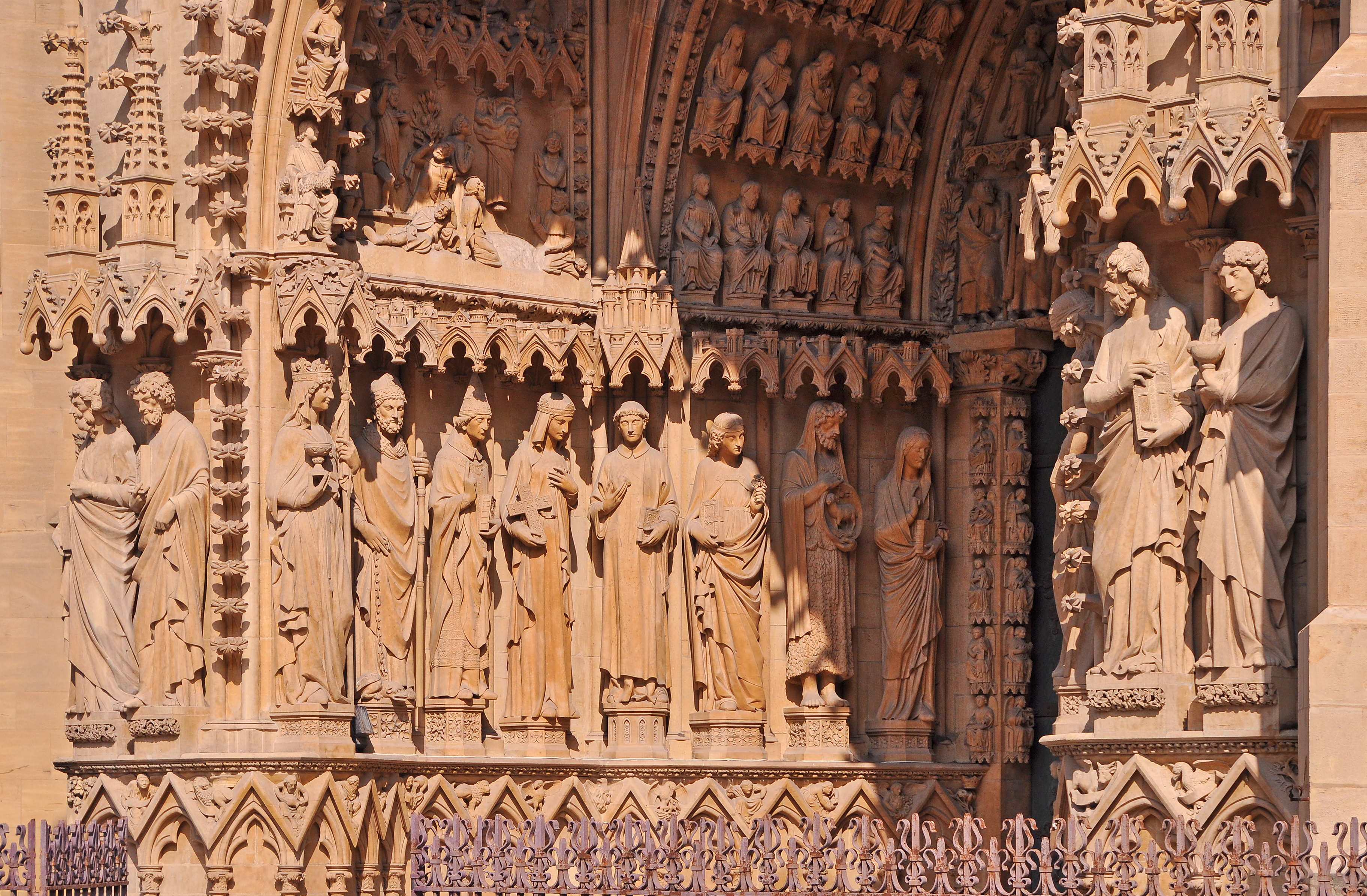 Metz (France): Saint-Etienne cathedral, Portail de la Vierge (detail)